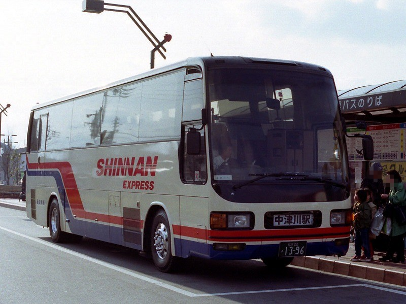 Shinnan kotsu Highwaybus "Iinaka-liner"(Iida,Nagano-Nakatsugawa,Gifu) Mitsubishi Fuso Aero Queen M